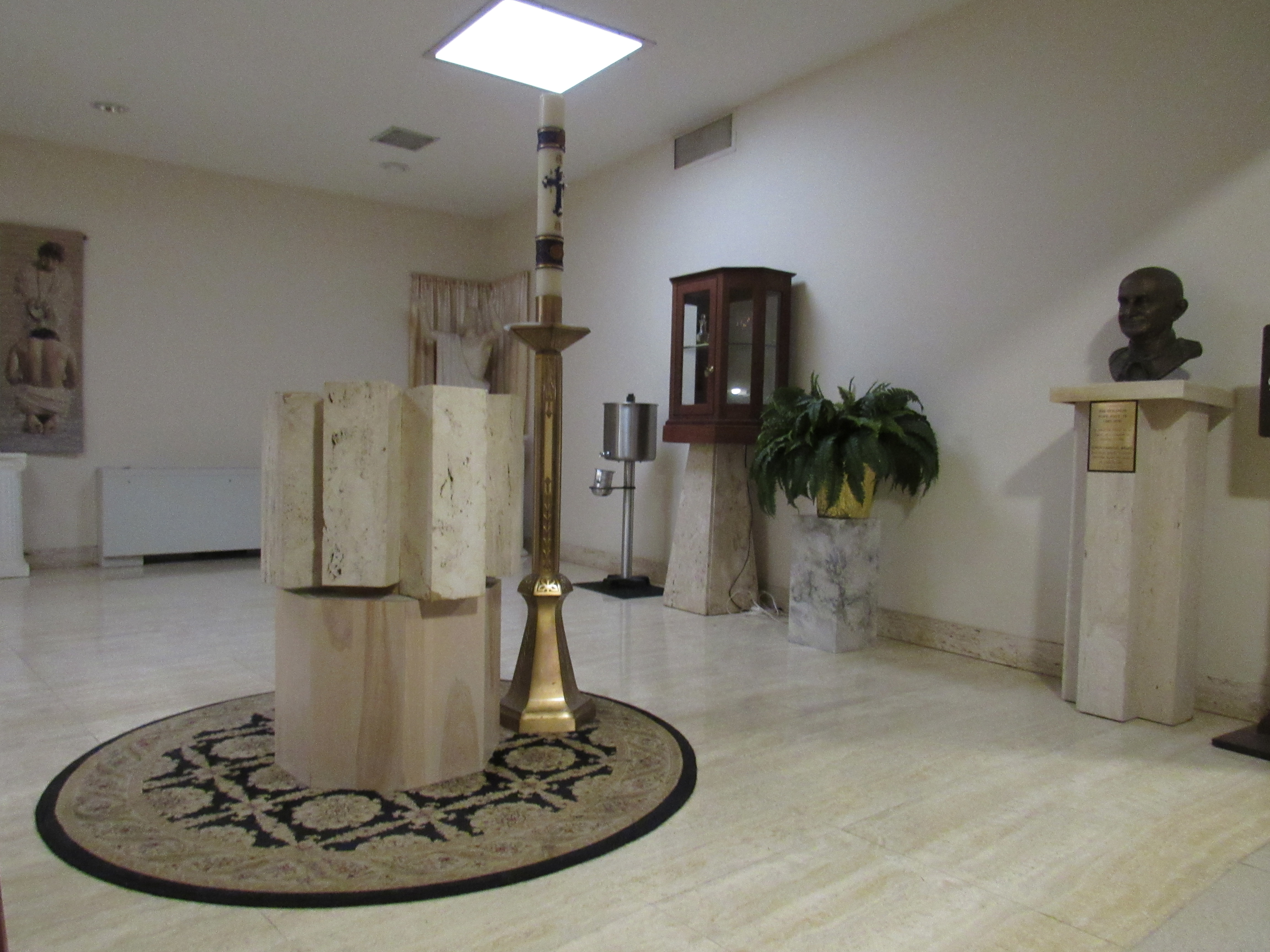 The baptistery in the Cathedral of Saint Joseph in Jefferson City, Missouri.